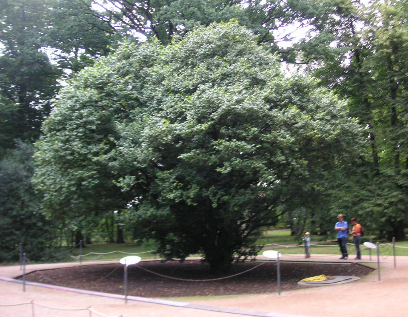 Camellia japonica in the gardens of Pillnitz Castle, Dresden (without winters' protection house)